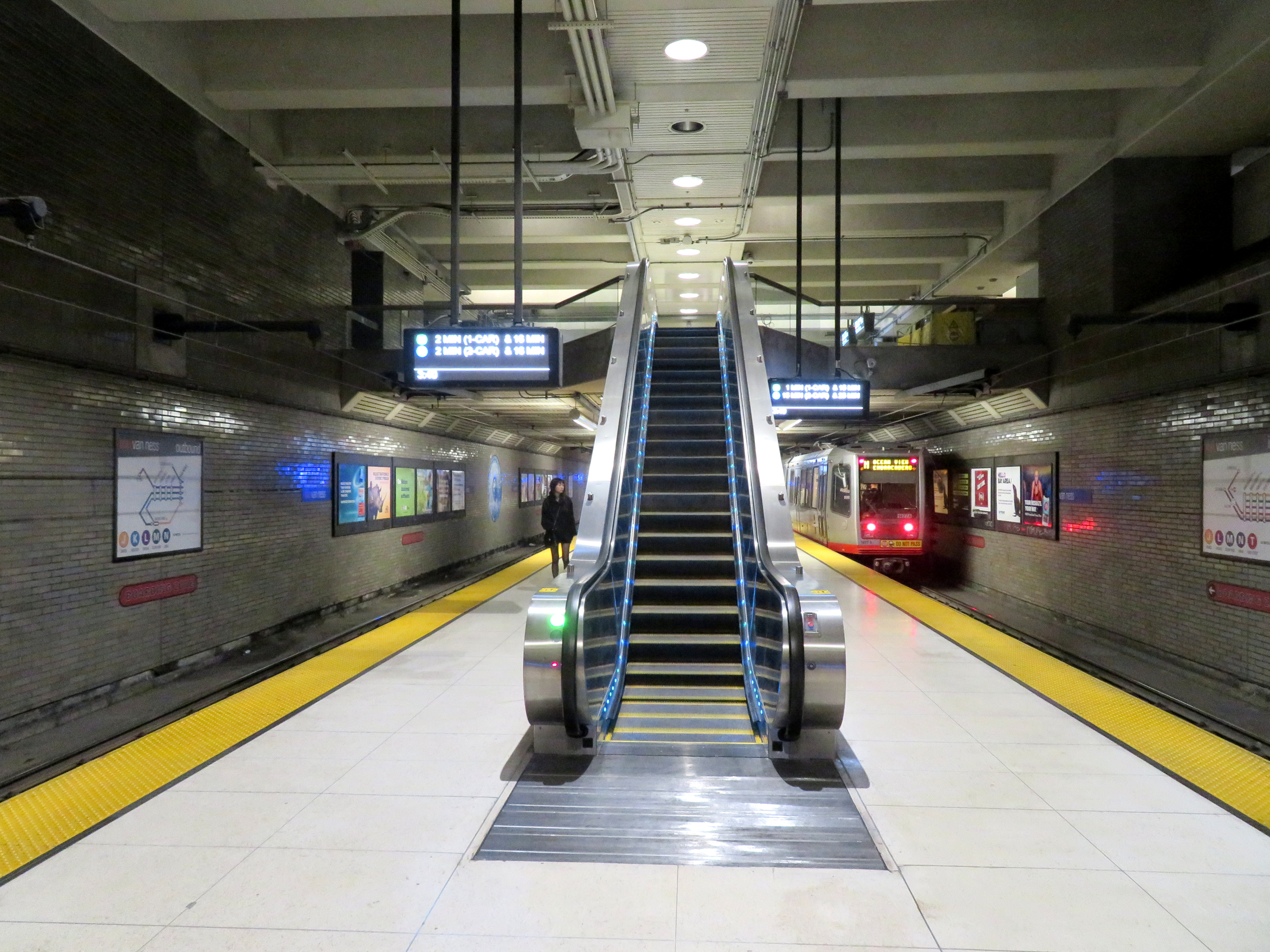 Van Ness station with a newly-replaced escalator in March 2019